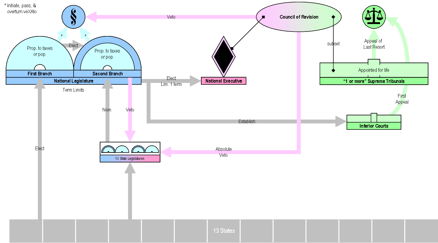 A diagram of the Virginia Plan presented at the Constitutional Convention in the United States in 1787.